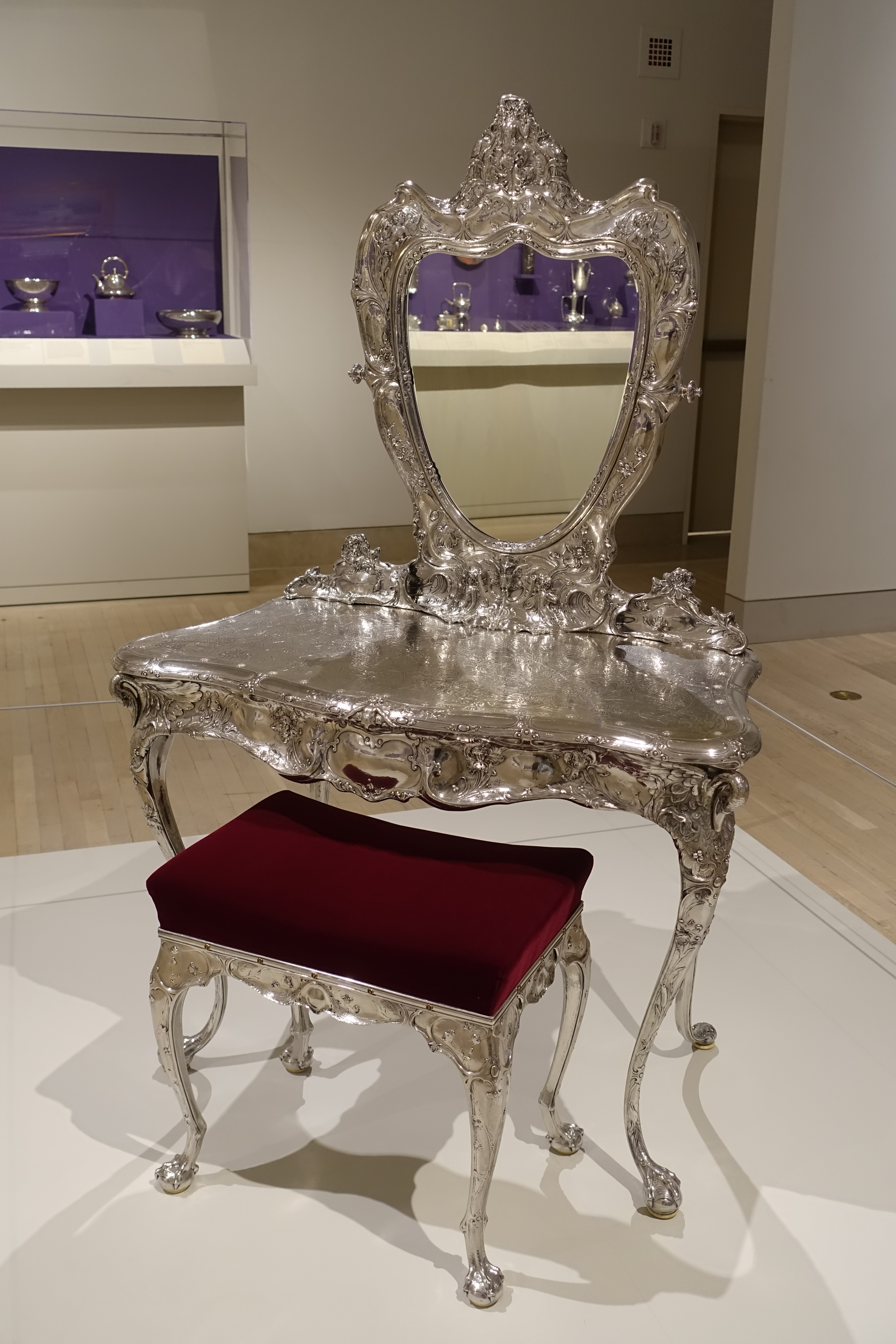 Exhibit in the Dallas Museum of Art, Dallas, Texas, USA.